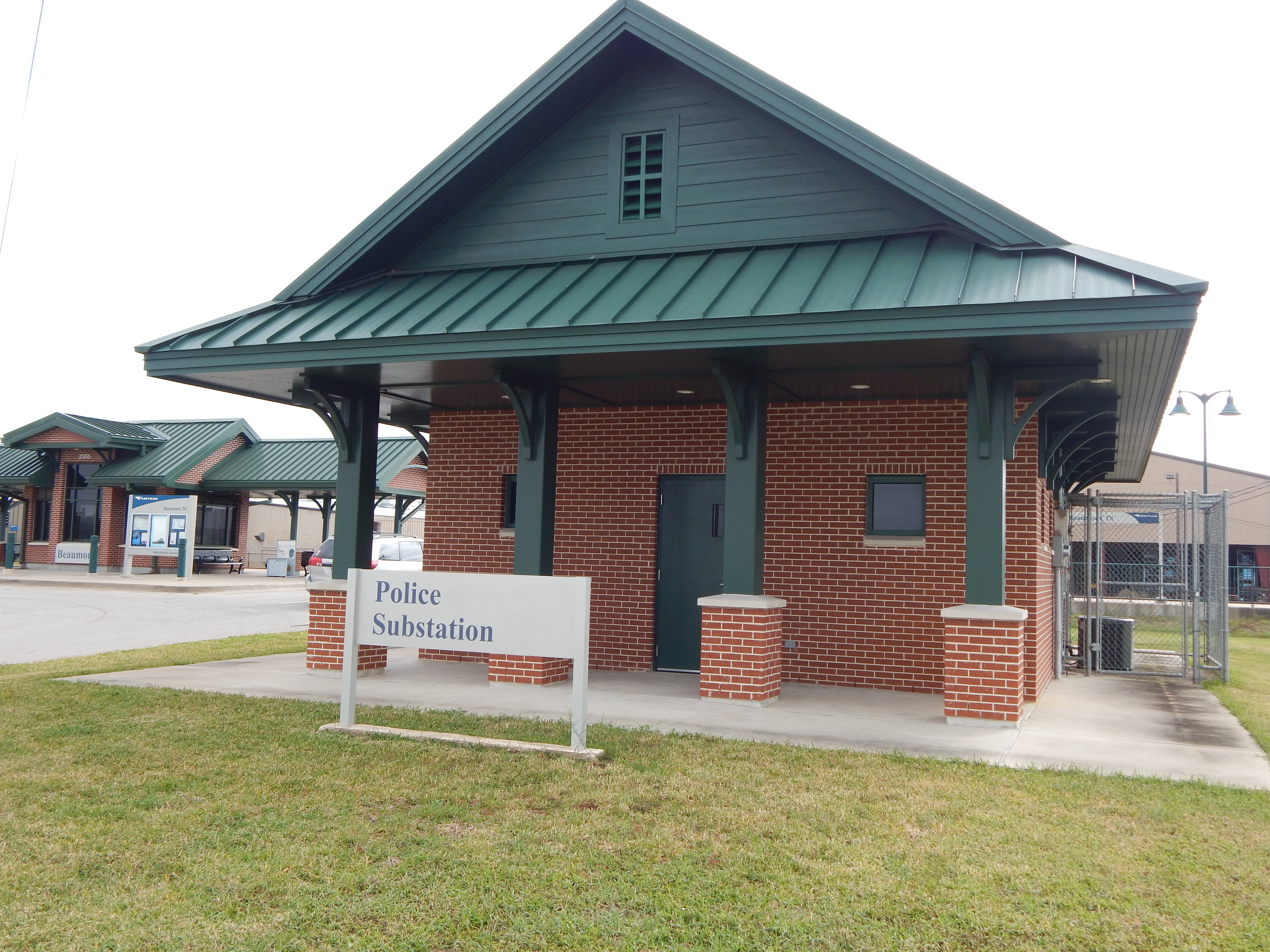 Police substation adjacent to Amtrak station in Beaumont, TX